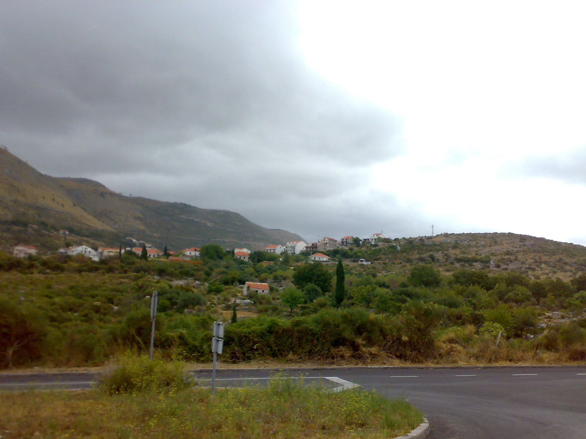 Zvekovica village in the Konavle region, Kroatia